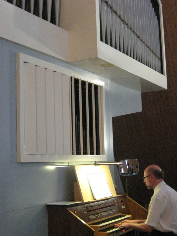 Hans-Eberhard Roß bei der "Wieder"-Einweihung der Simon-Orgel am 18.Juli 2013